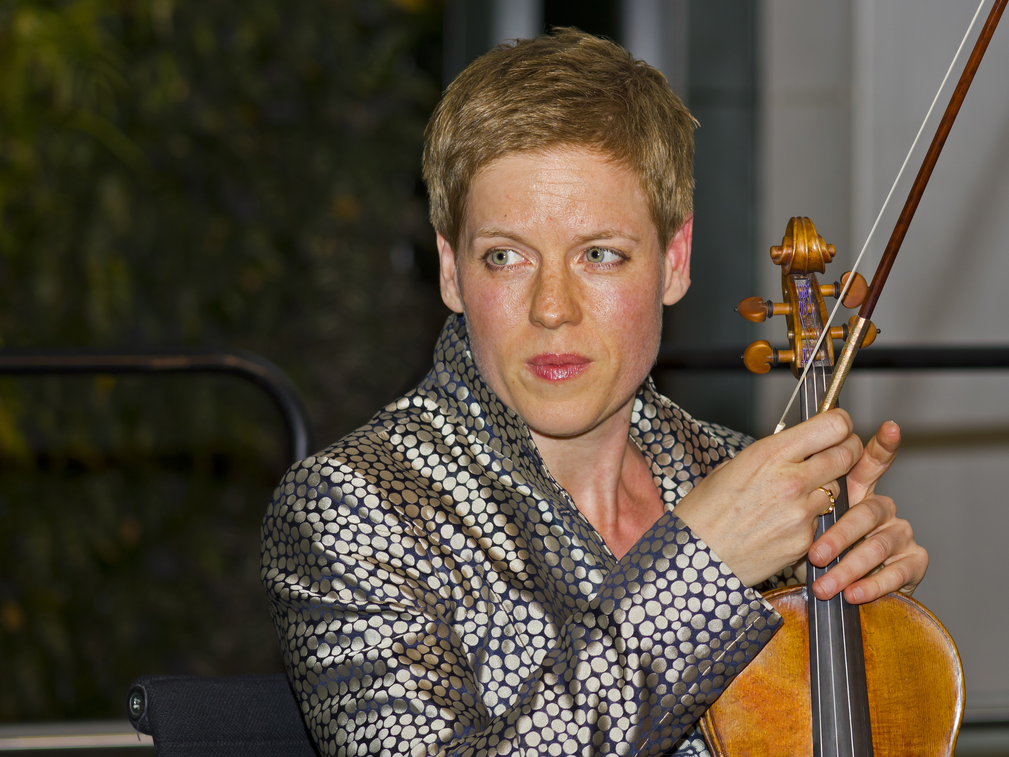 The image shows the German violinist Isabelle Faust during a CD presentation in Dussmann, Berlin.